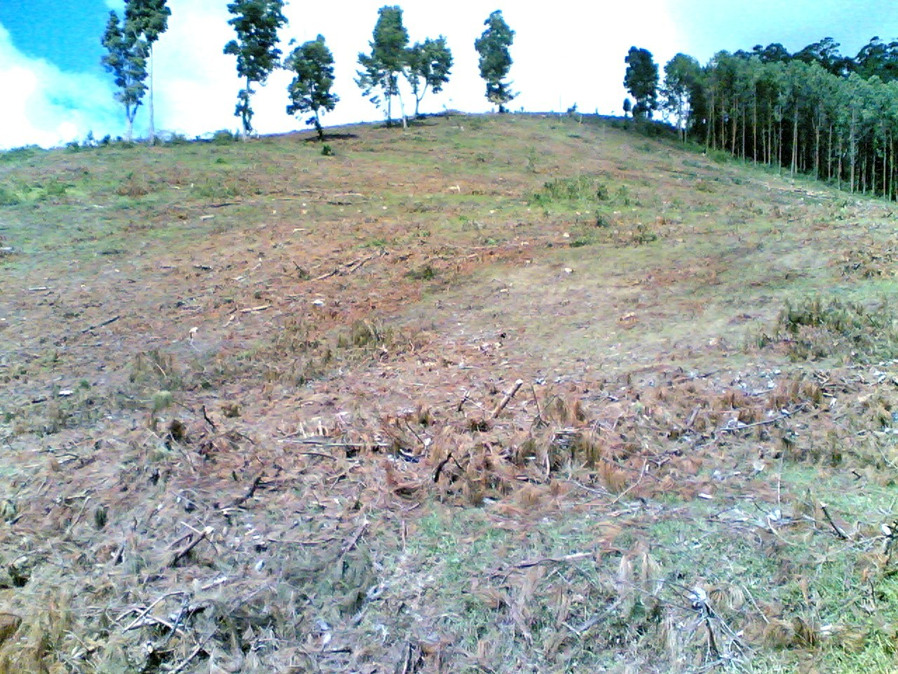 Deforestation in the Usambara Mountains in Lushoto District, Tanga Region, Tanzania.